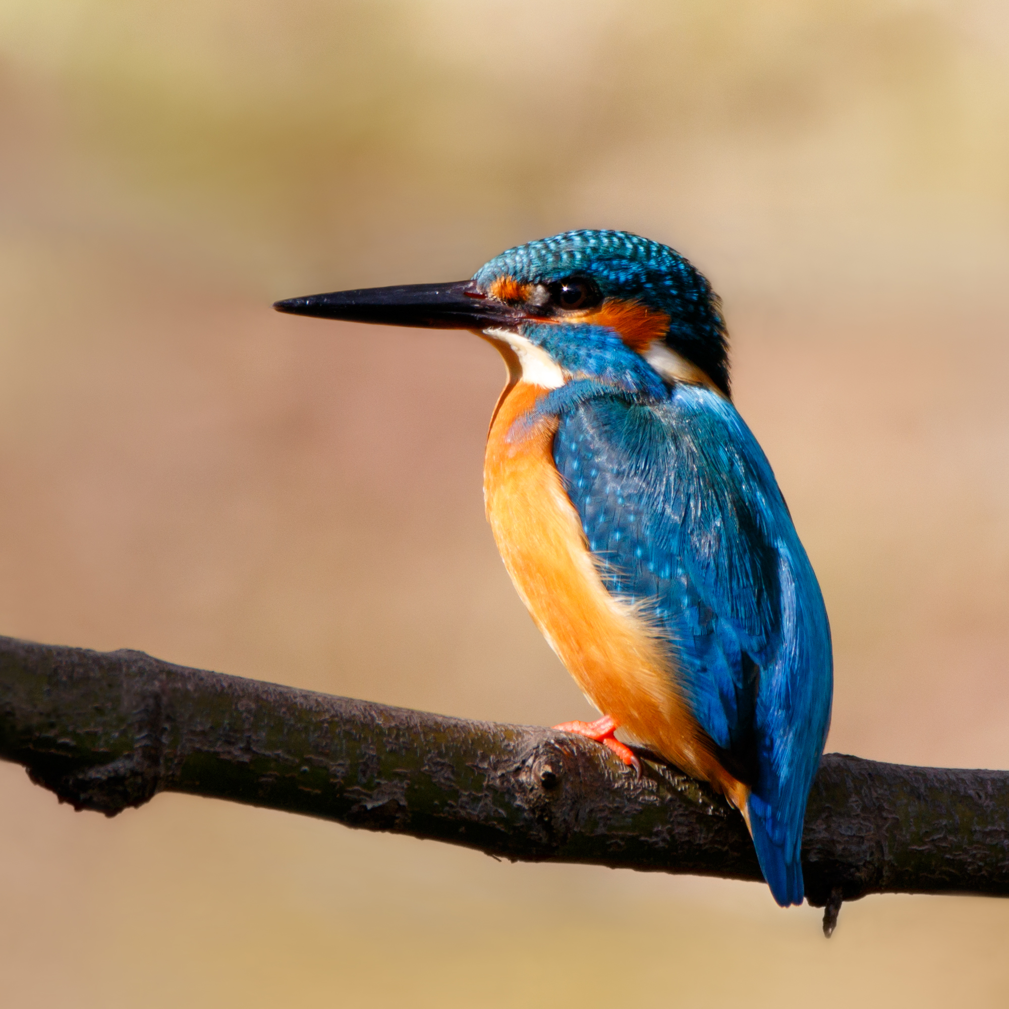 Common kingfisher in Suita, Osaka.